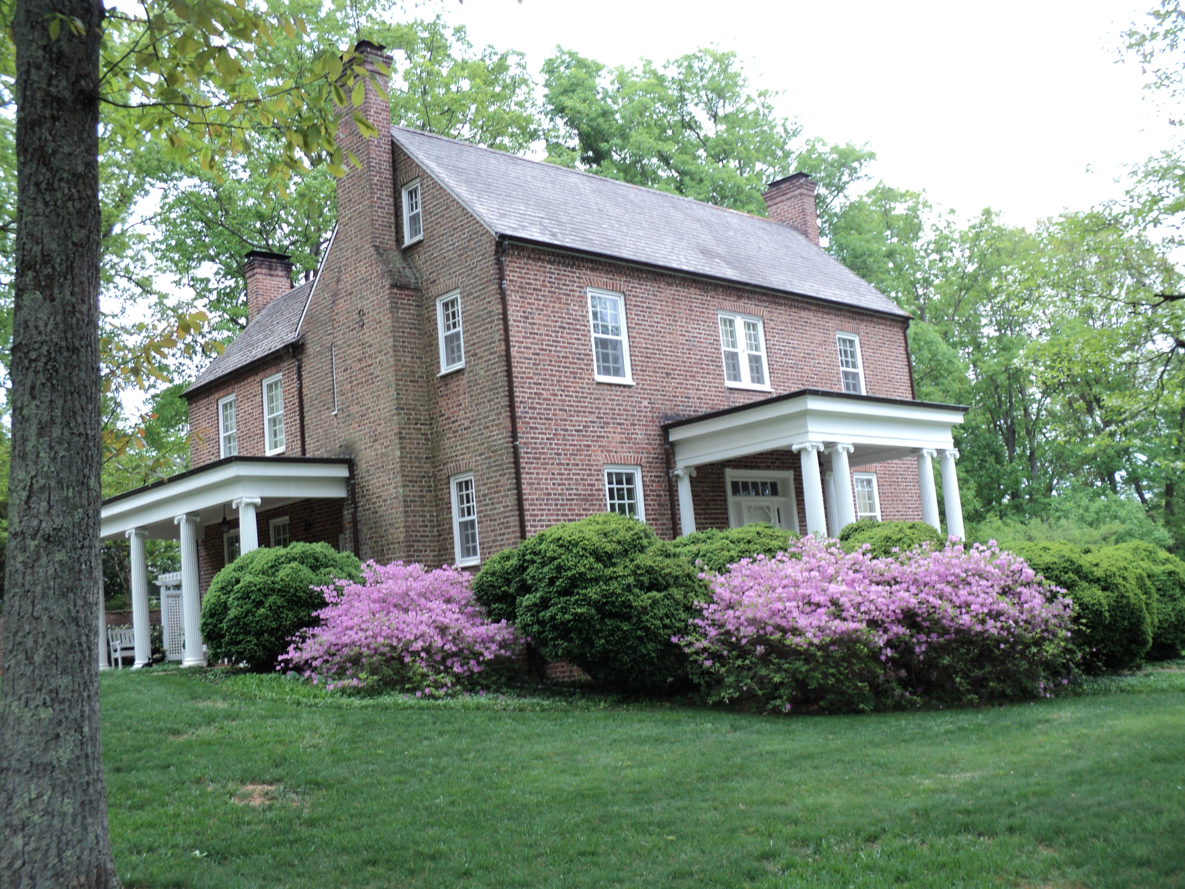 View of 'Greenwood,' a two-story Flemish-bond brick house built for Colonel Joseph Martin, son of General Joseph Martin. The house was built in 1808–1810 at Axton, Henry County, Virginia, for Col. Martin, who was born in 1785 and served in the War of 1812. The house is based on a symmetrical three-bay Early Republic style and has a centered single-leaf wood door with a full surround. The house's portico is supported by paired Ionic columns. The windows are 9/9 sash windows with splayed brick lintels. The home features two exterior-end chimneys with disengaged stacks. It has seven fireplaces. In about 1940, basement excavations caused a cave-in, and the house was disassembled and moved from its location at Axton in Henry County to nearby Martinsville, named for Col. Joseph Martin's father.